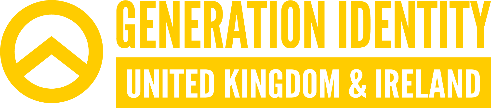 Generation Identity UK Logo with the Lambda.